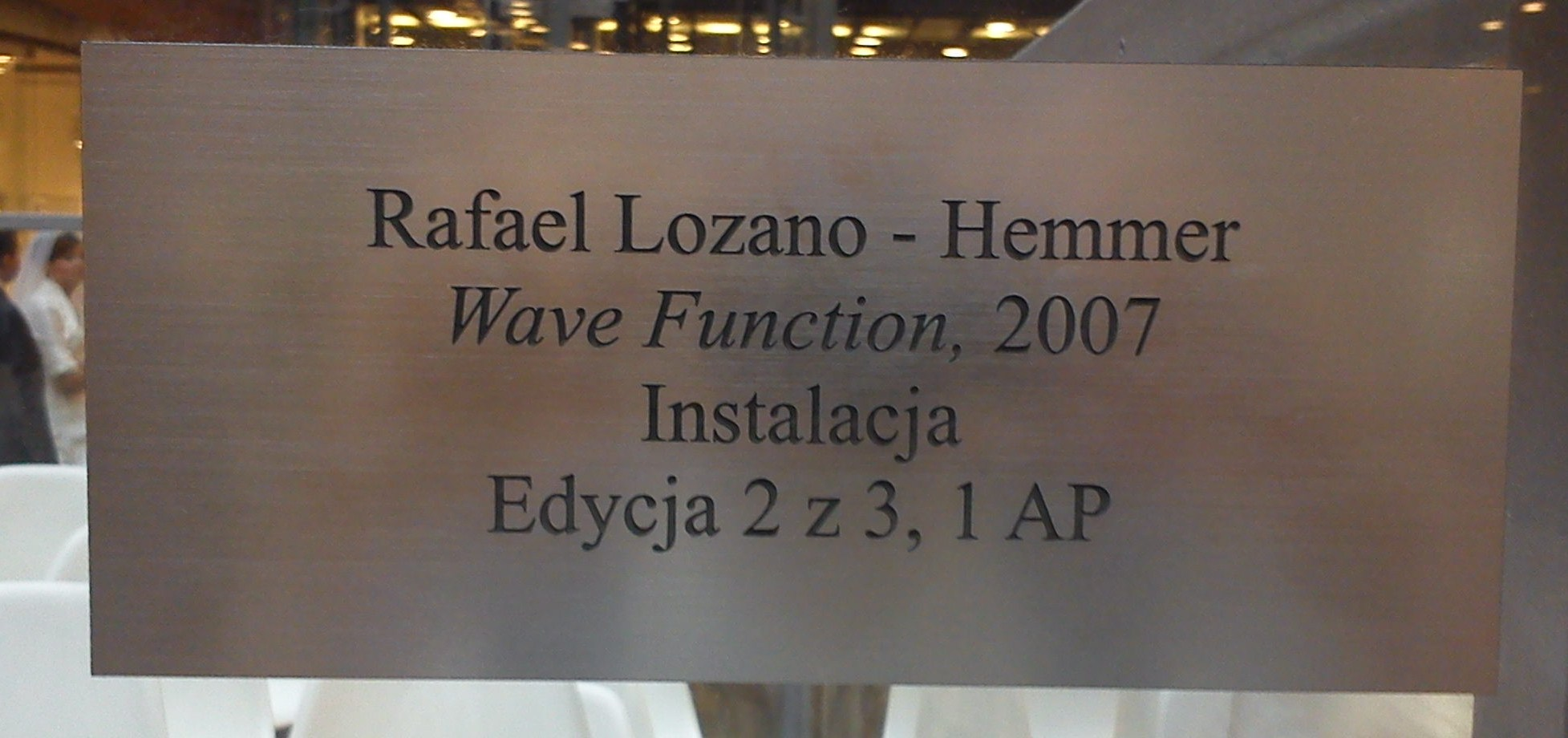 Example of an information plate in Stary Browar, Poznan.